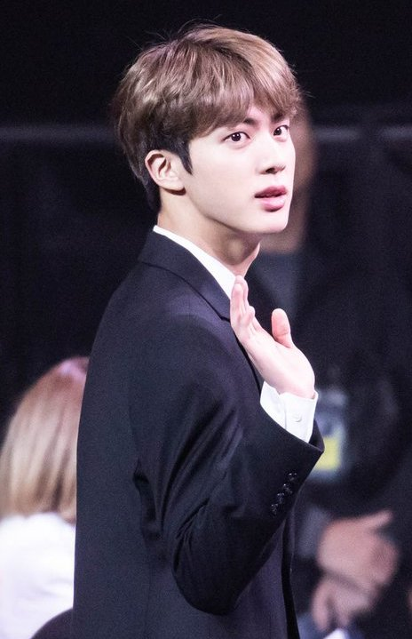 Kim Seok-jin at the 2018 Korean Popular Culture & Arts Awards on 24 October 2018